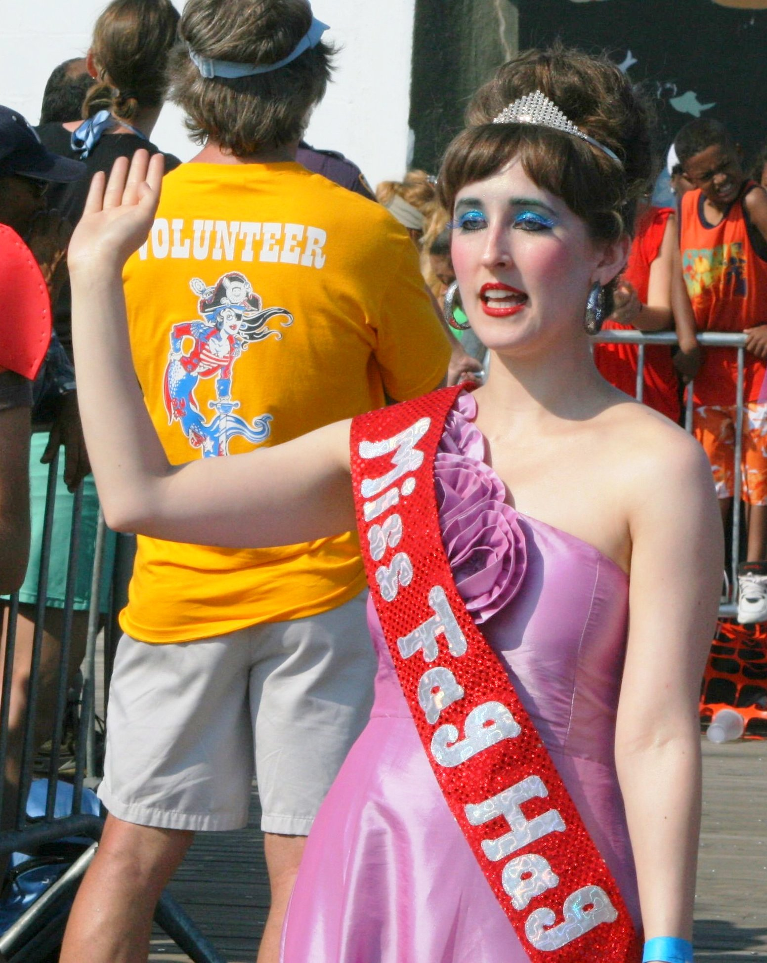 which way to the CSD parade?